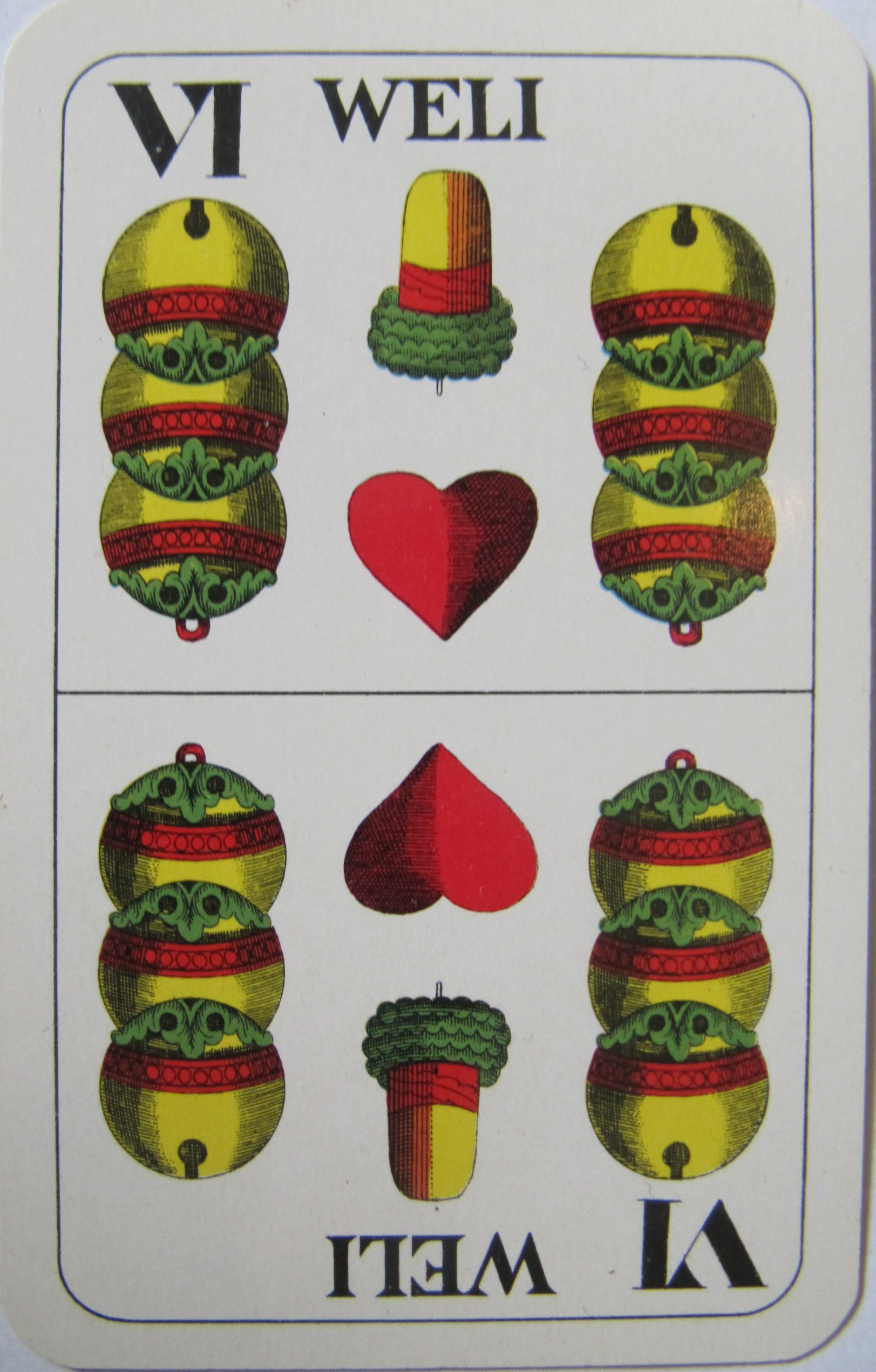 This photograph shows a single playing card, a six of bells labeled “Welli”.